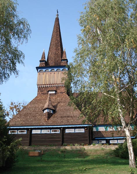 Board Church, Miskolc, Hungary